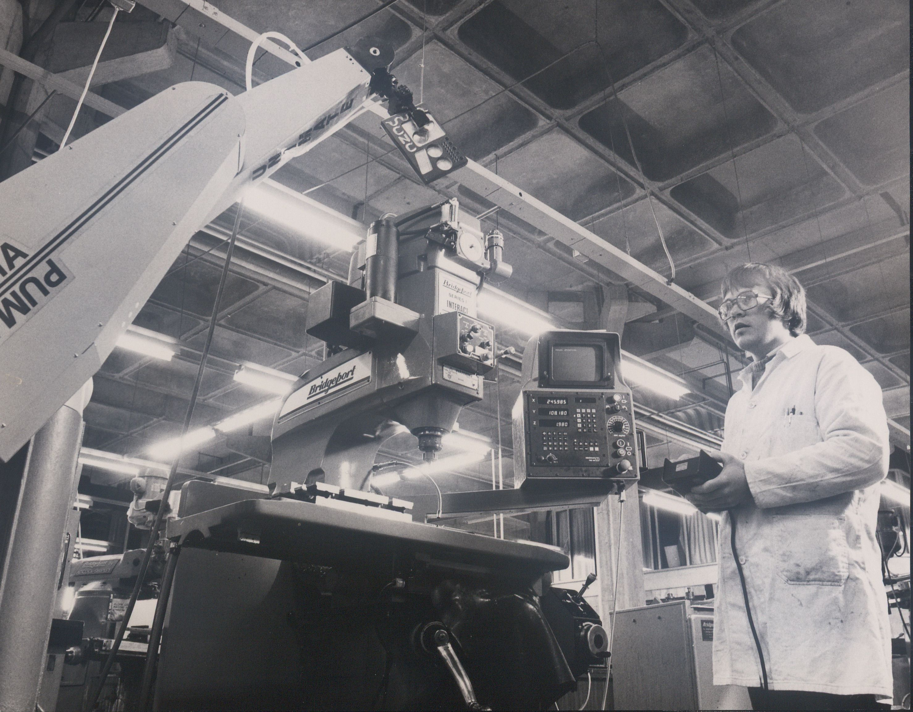 UL40_Box25_Folder12_002